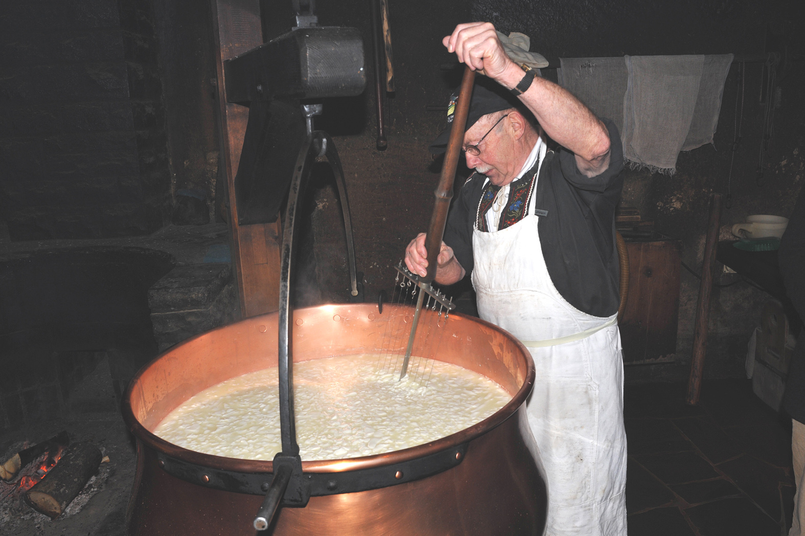 Emmental show dairy, in the "Küherstock"; traditional cheese production; Affoltern, Berne, Switzerland.